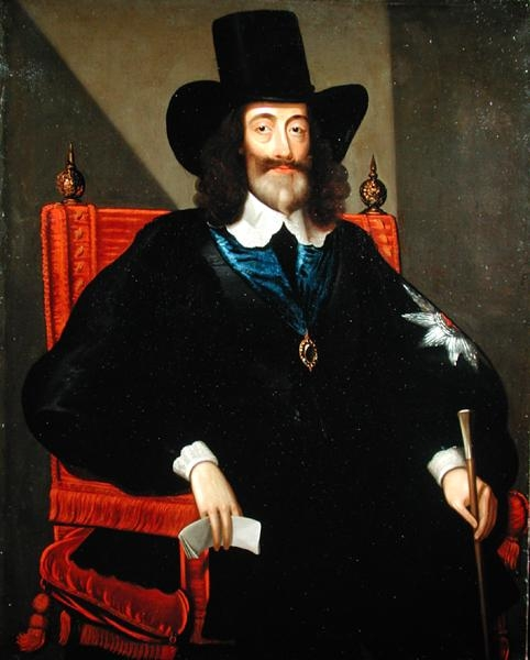 Portrait of King Charles I of England at his trial, January 1649